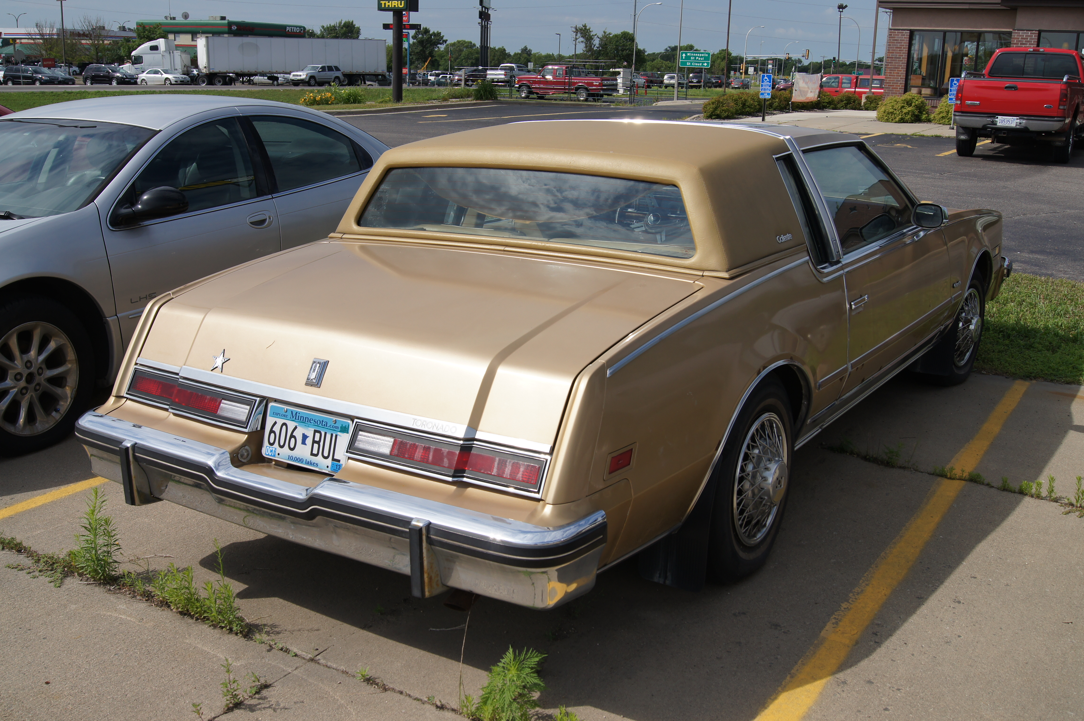 Sightings along the way back from the National Desoto Club & Walter P. Chrysler Club Convention.